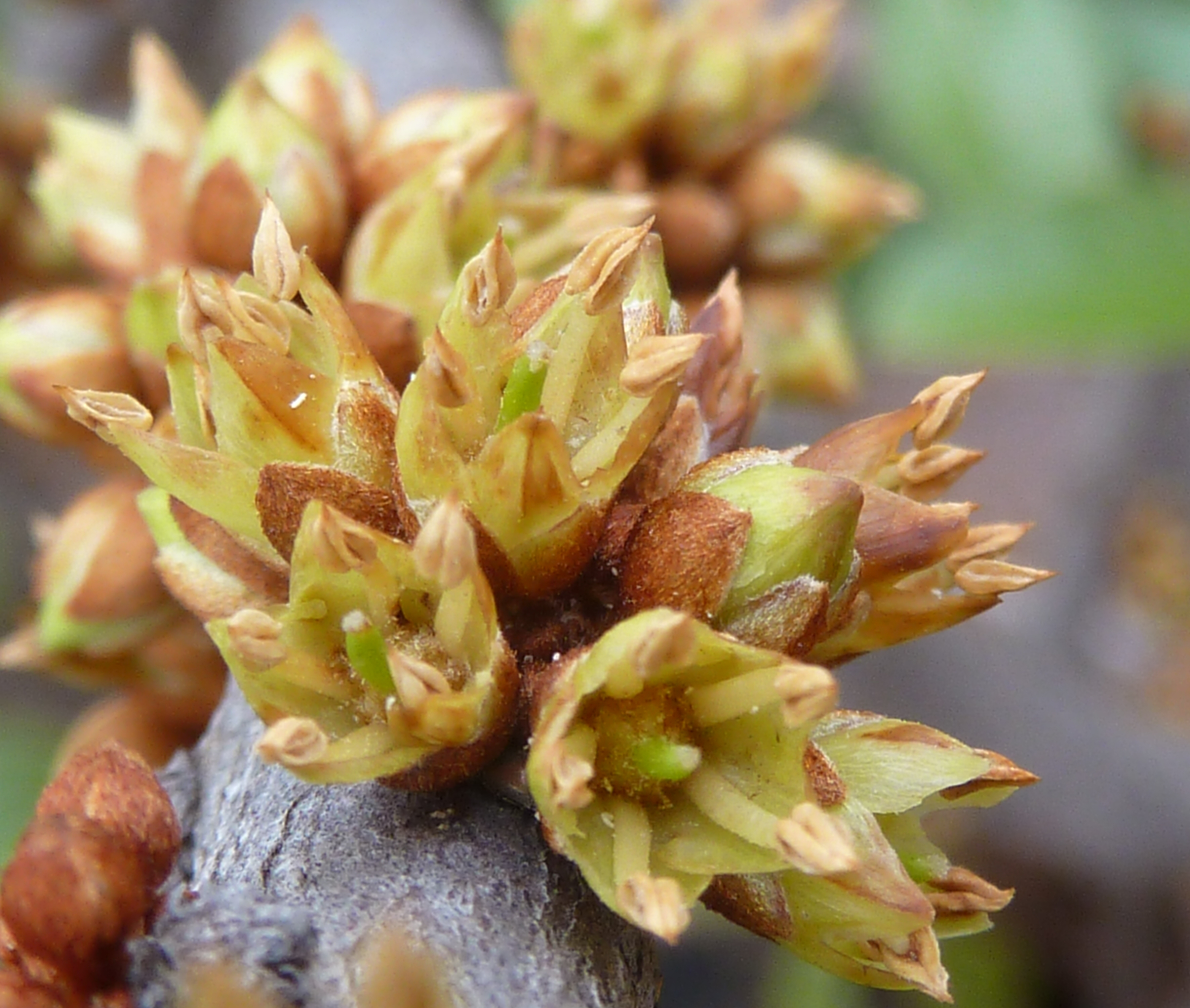 Winter flower clusters covering a stem of a Stamvrug shrub at Little Eden, De Tweedespruit conservancy, Gauteng